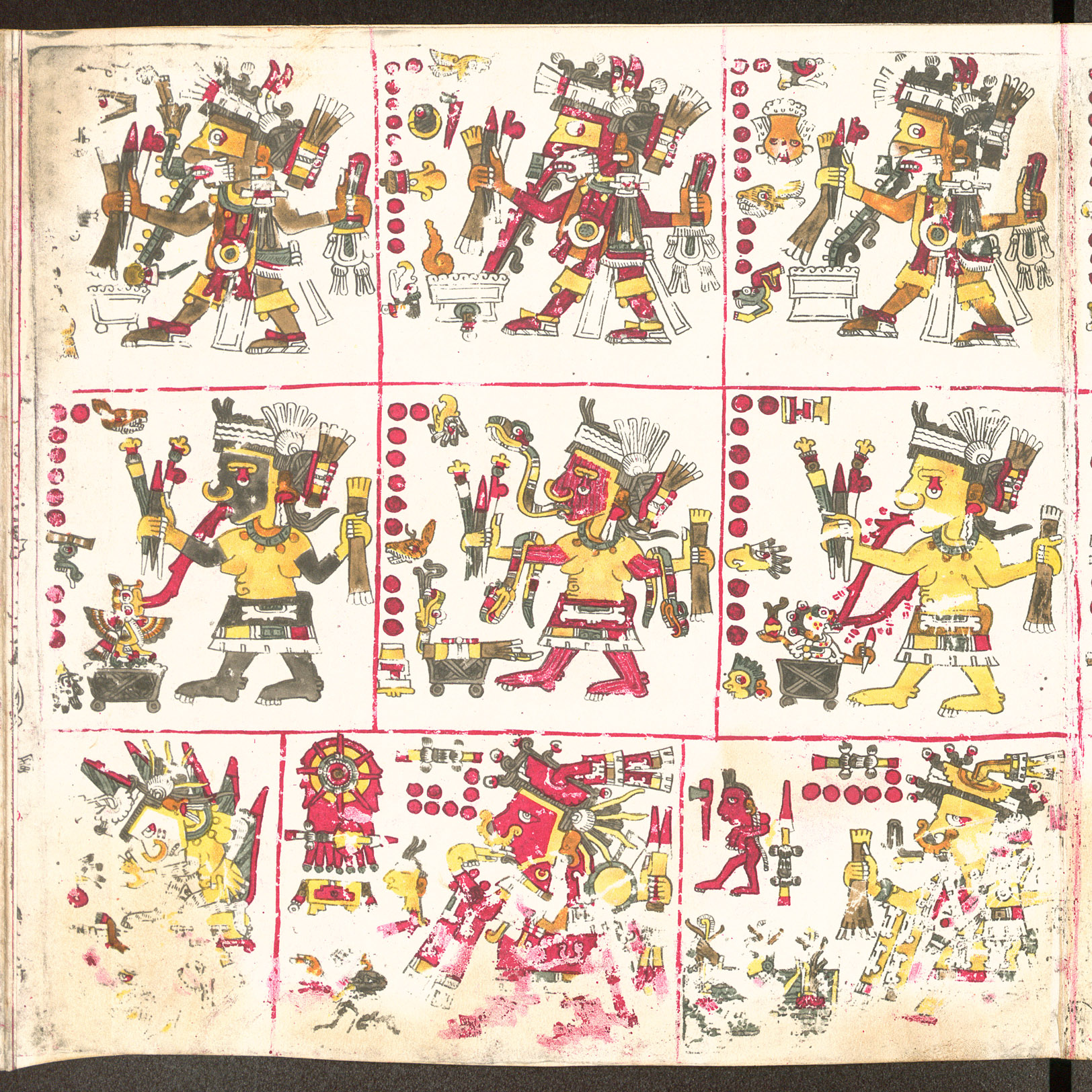 Page 48 of the Codex Borgia.